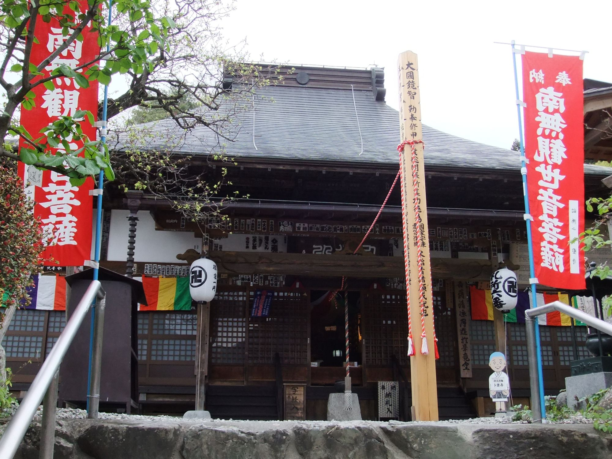 Boku'un-ji temple in Yokoze, Saitama Prefecture